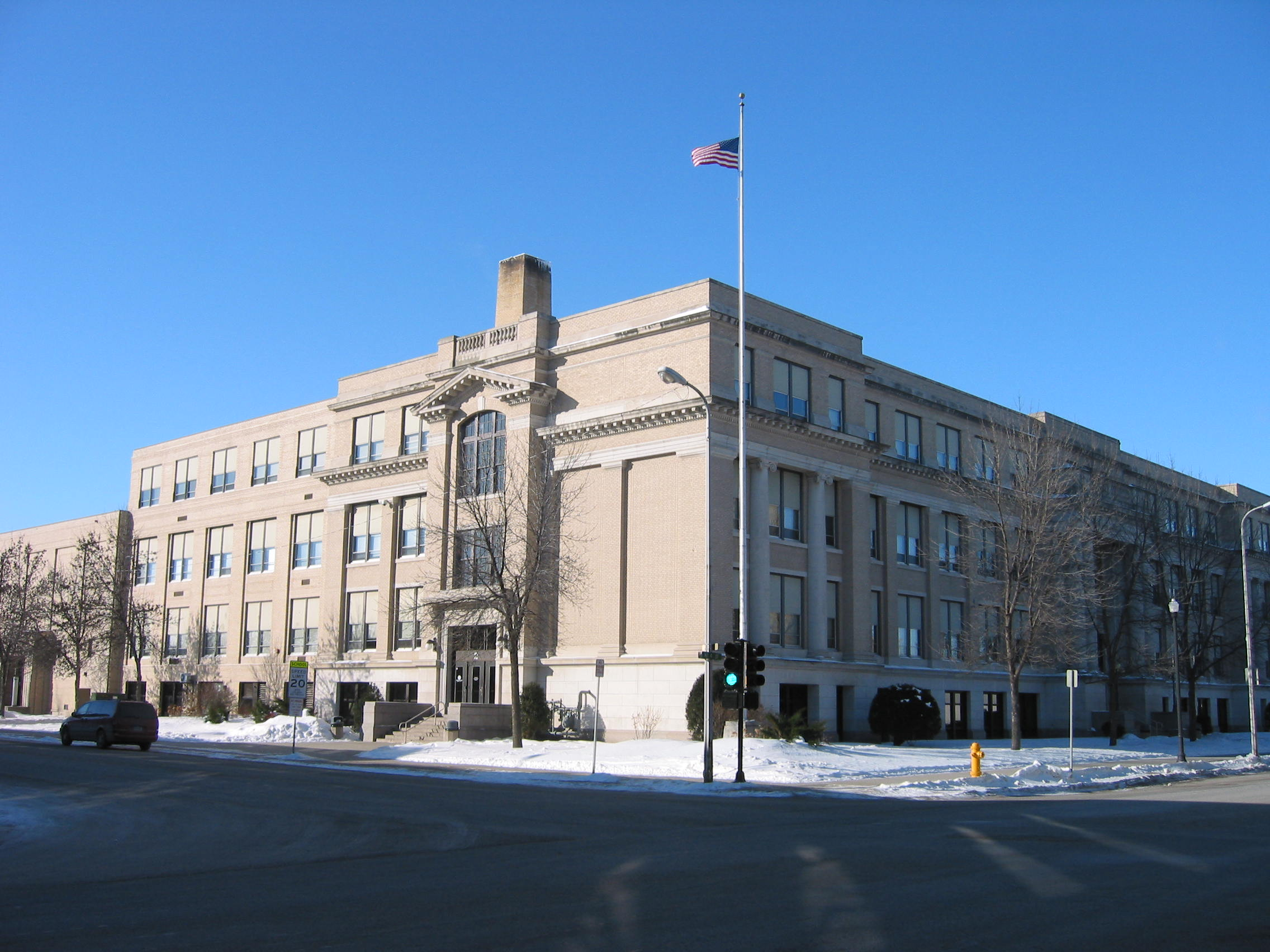 The SE corner of Central High School. Downtown Grand Forks, ND, USA.